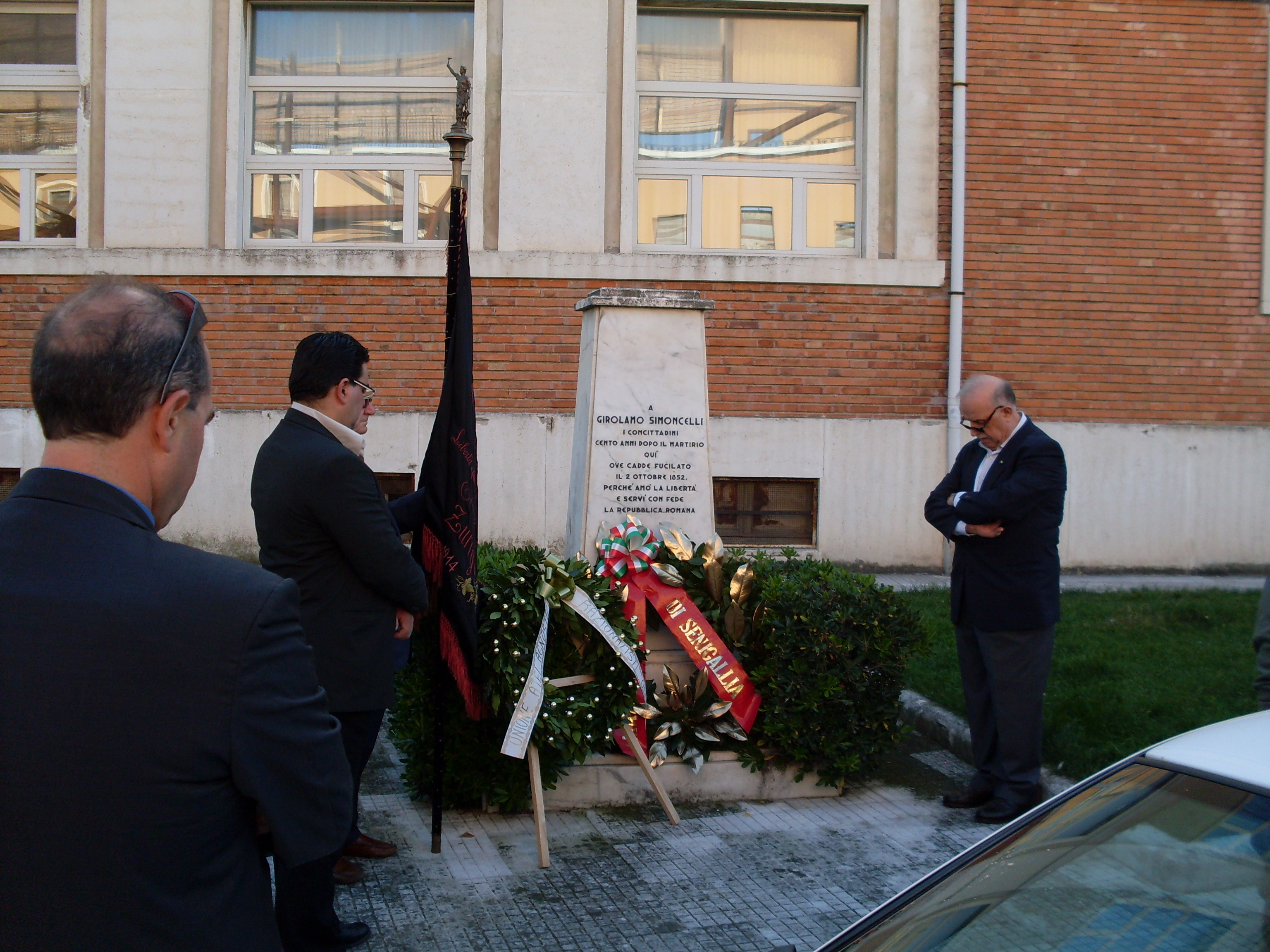 Monument TO Girolamo Simoncelli - Senigallia (AN)- Commemoration 2010